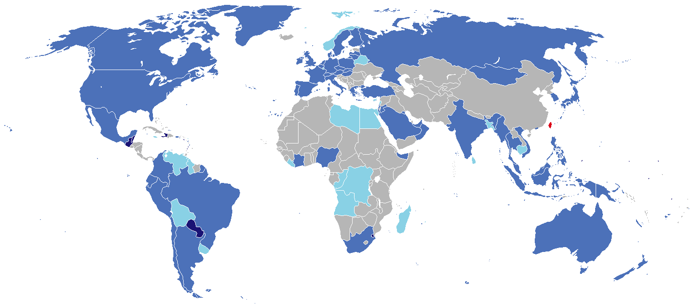 Diplomatic mission of Taiwan Countries hosting one or more unofficial representative offices of the Republic of China Former unofficial representative offices of the Republic of China Countries hosting an embassy of the Republic of China Republic of China